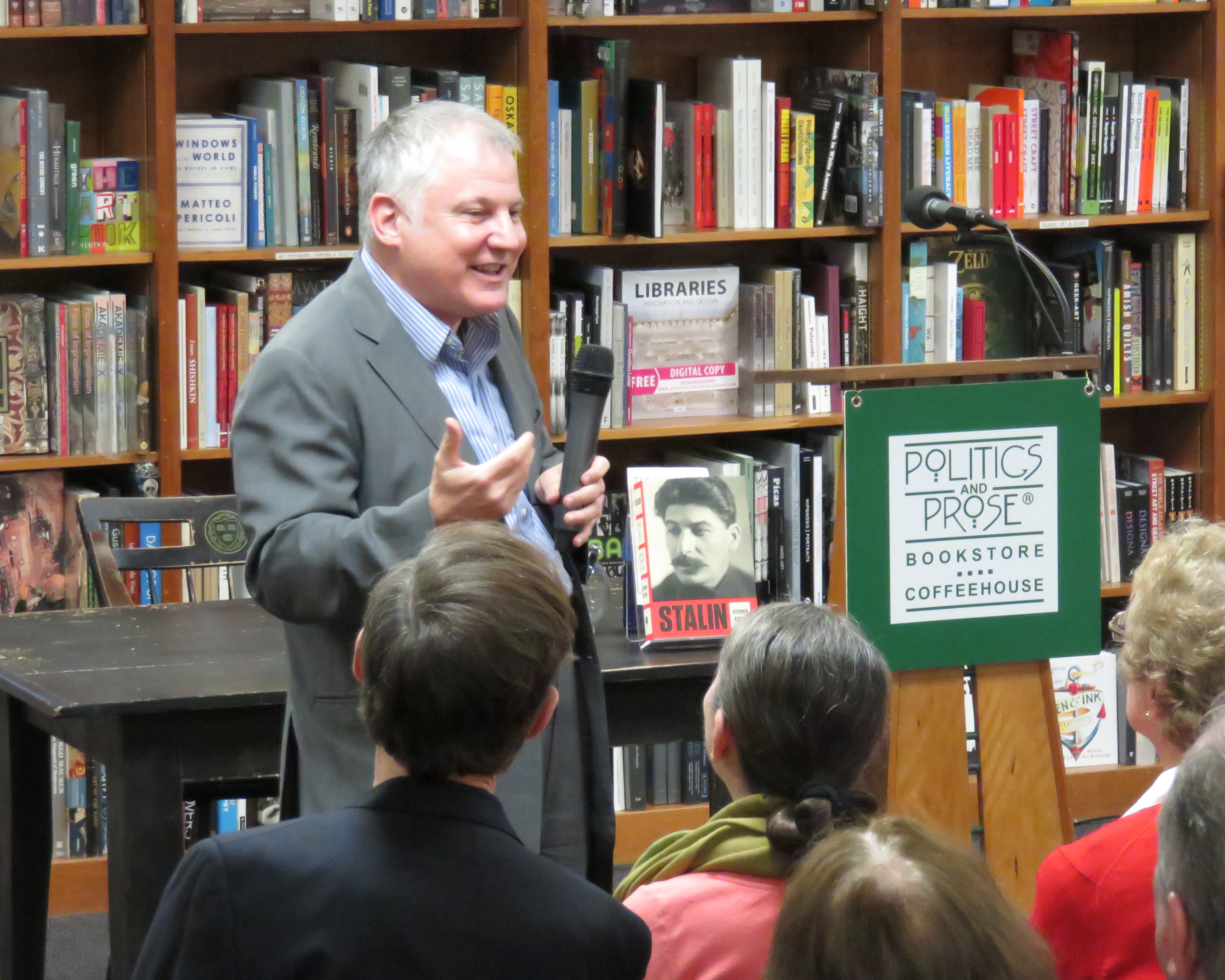 Stephen Kotkin, discussing his book, Stalin: Volume I: Paradoxes of Power, 1878-1928 at Politics and Prose, Washington, D.C., 11 March 2015